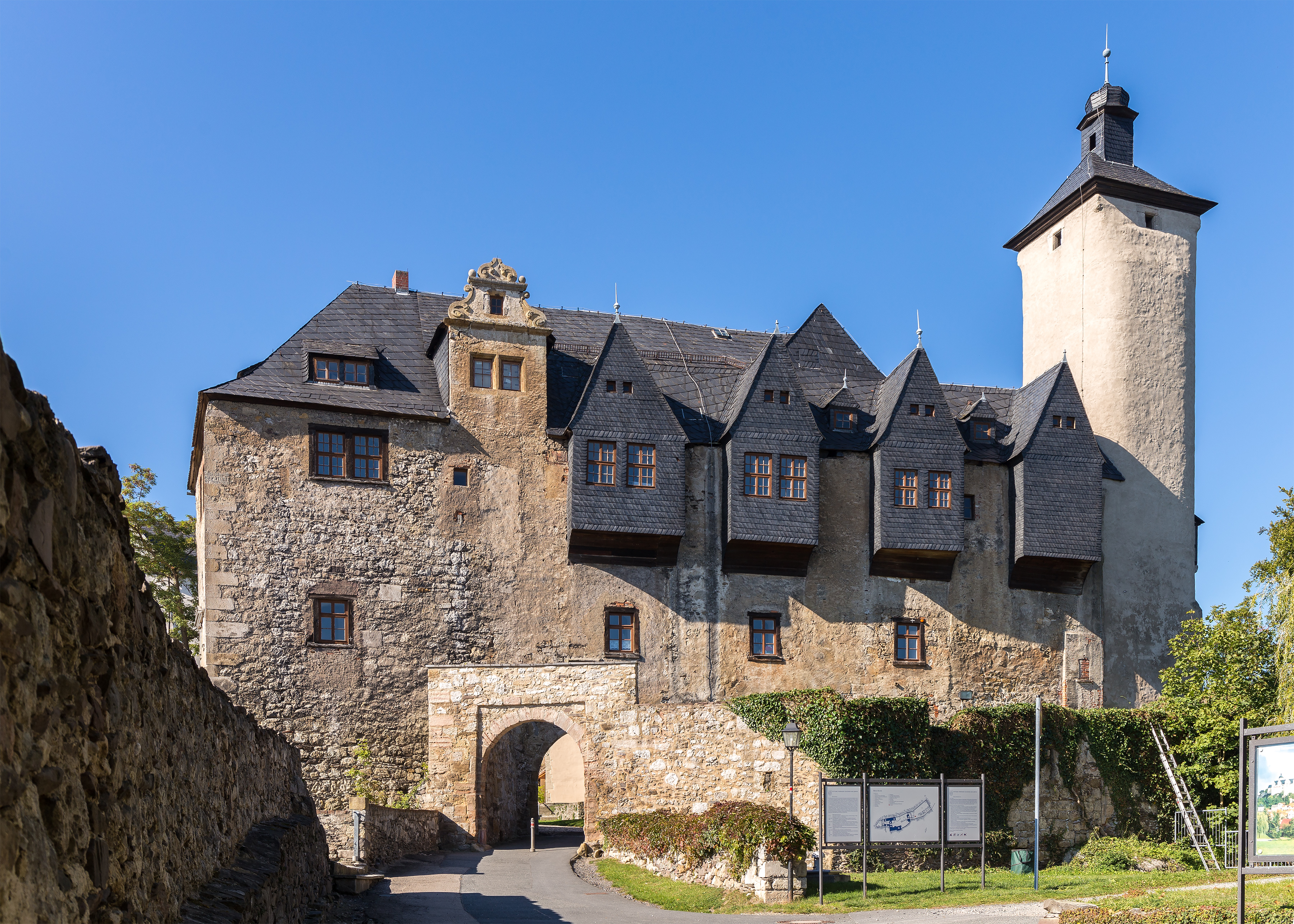 Castle of Ranis, bailey, exterior view.